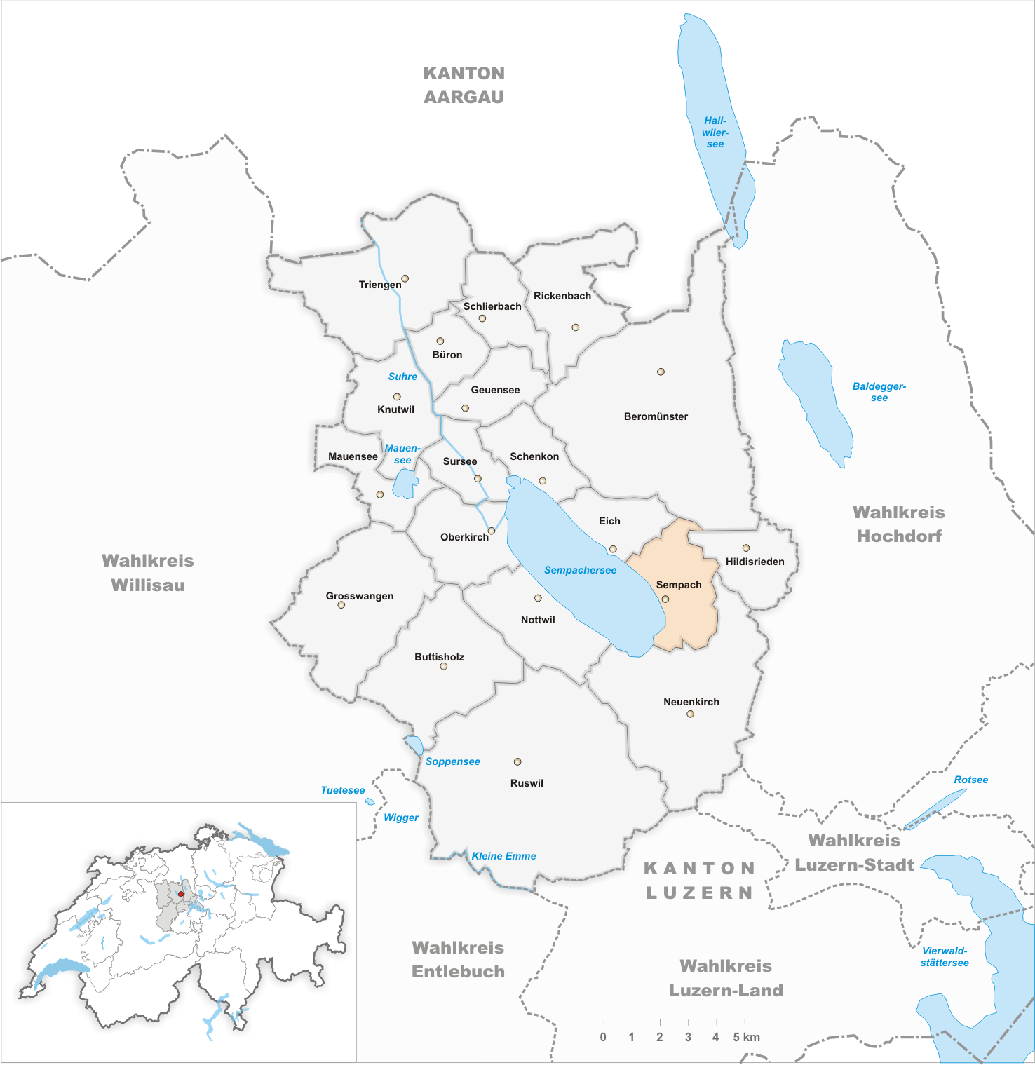 Municipality Sempach